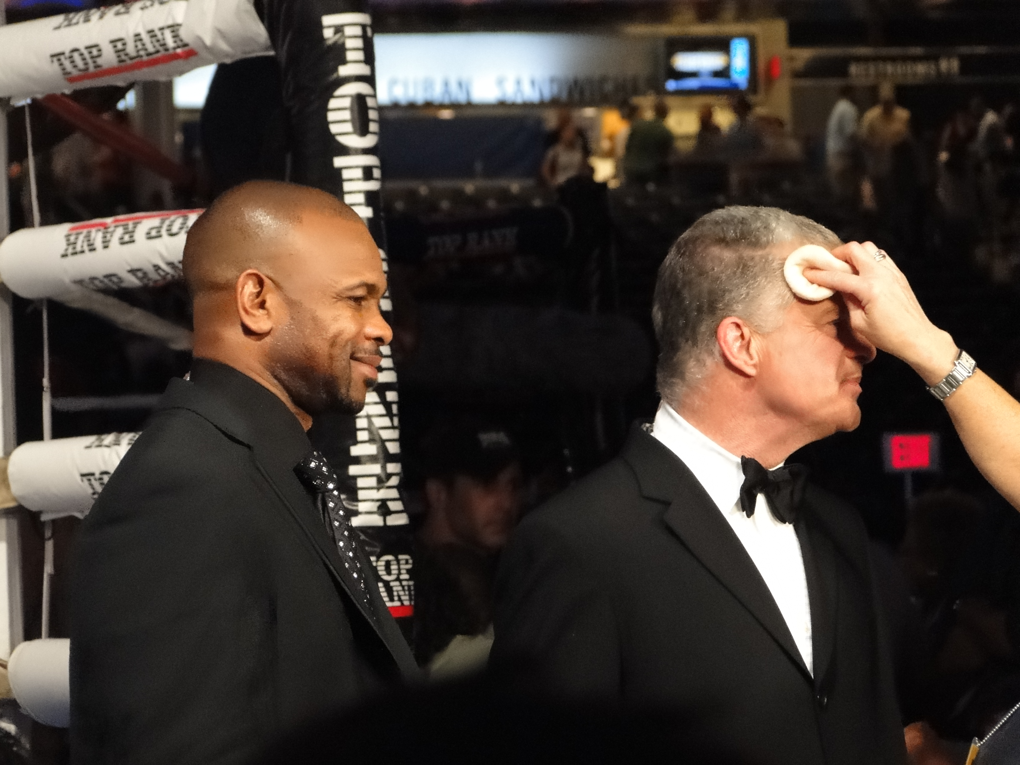 Roy Jones, Jr. and Jim Lampley at the Yankee Stadium, Bronx, New York on June 5, 2010.